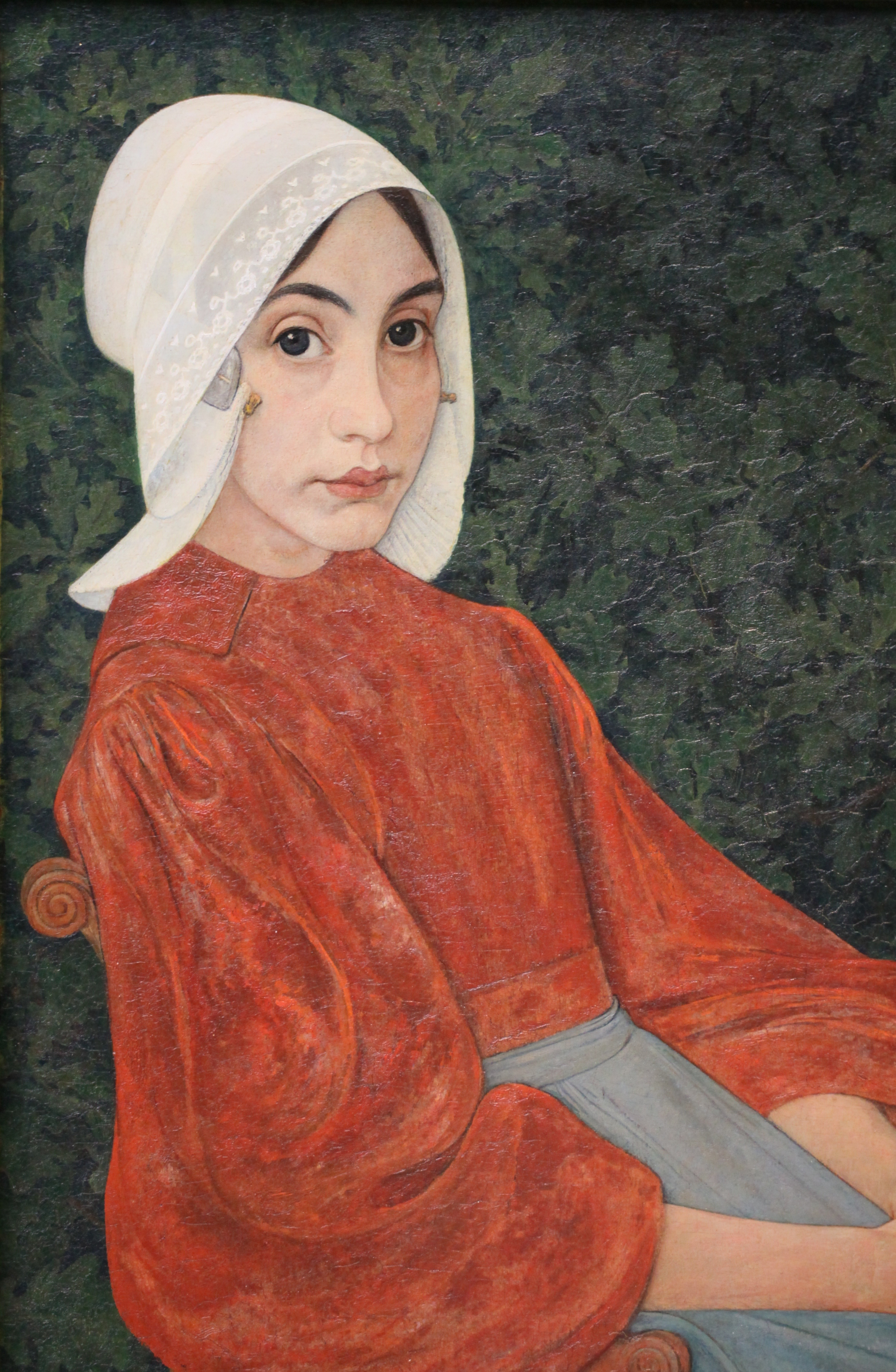 Karen (cropped)